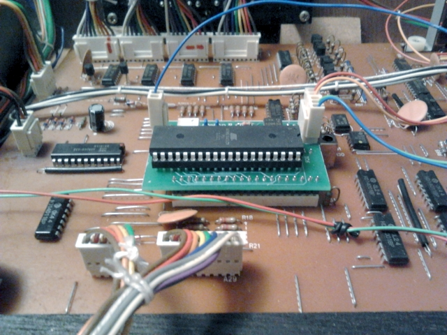 CPU replacement for the Roland Jupiter-4